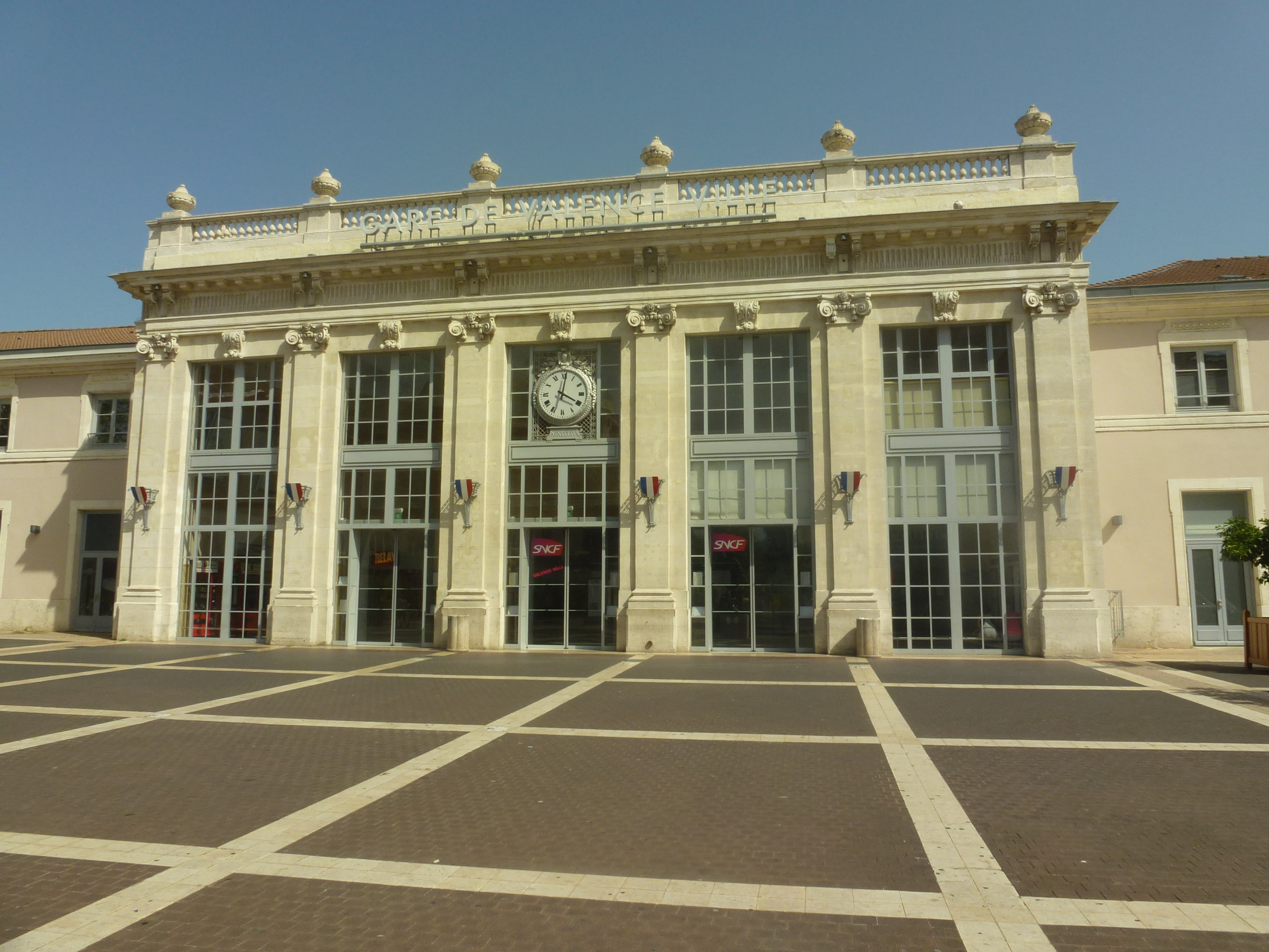 Valence Station